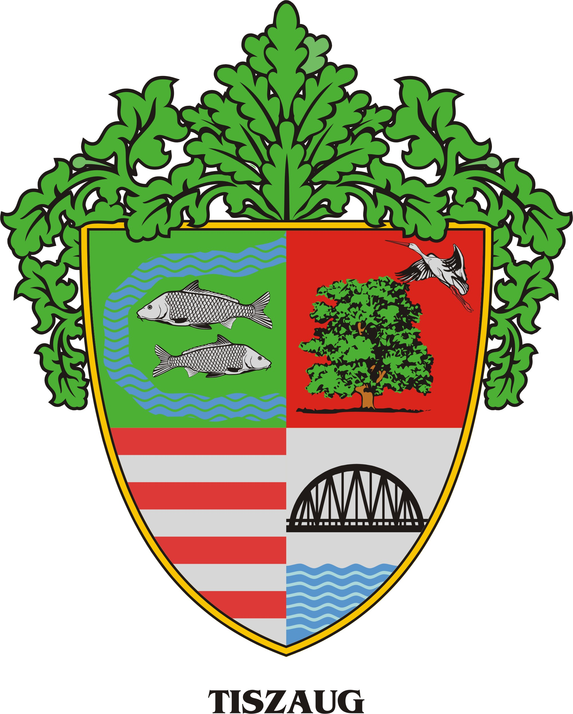 Coat of arms of Tiszaug, Hungary